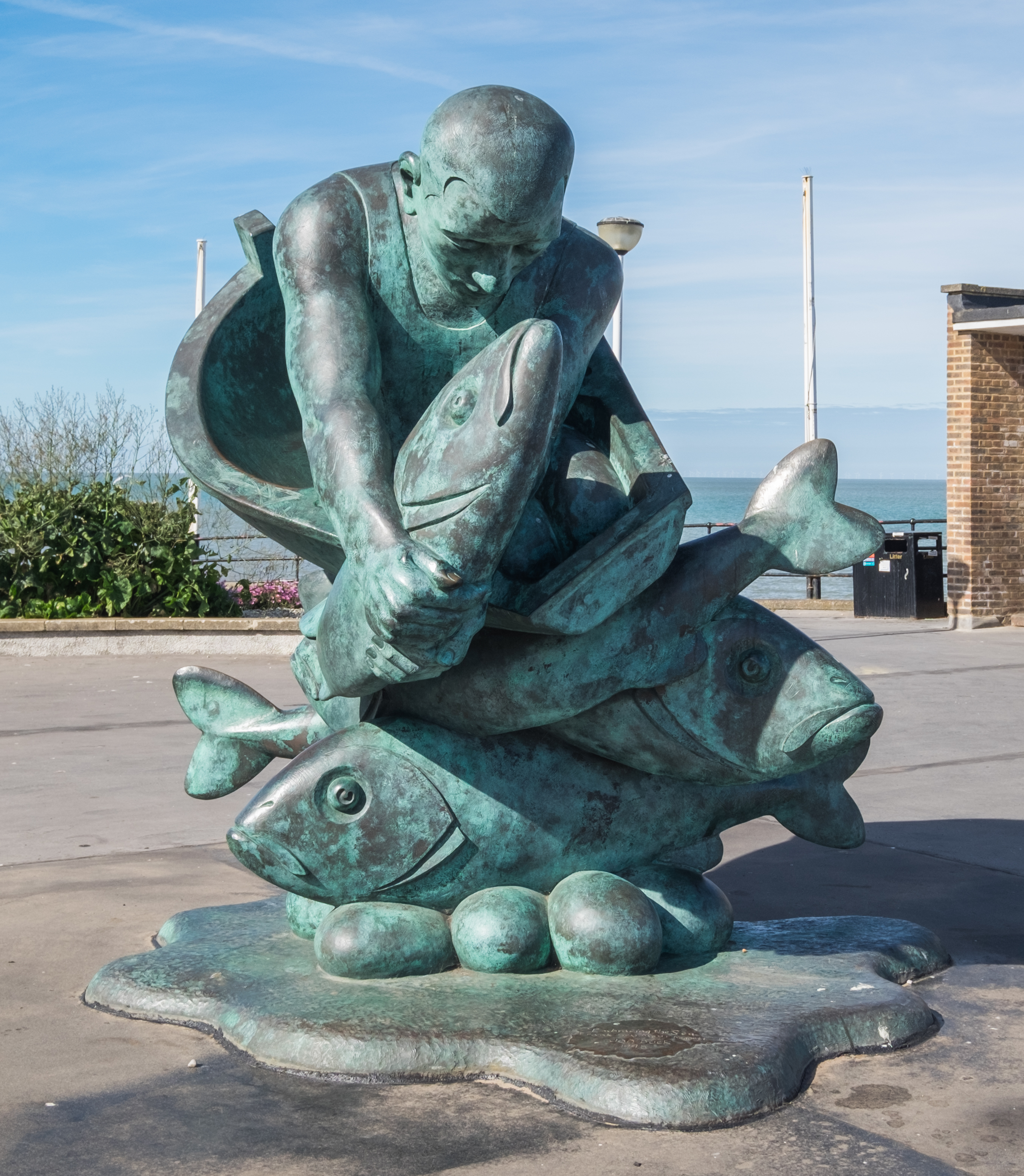 Embracing the Sea (1998) by Jon Buck. This sculpture is installed next to the entrance to Deal Pier, Kent.